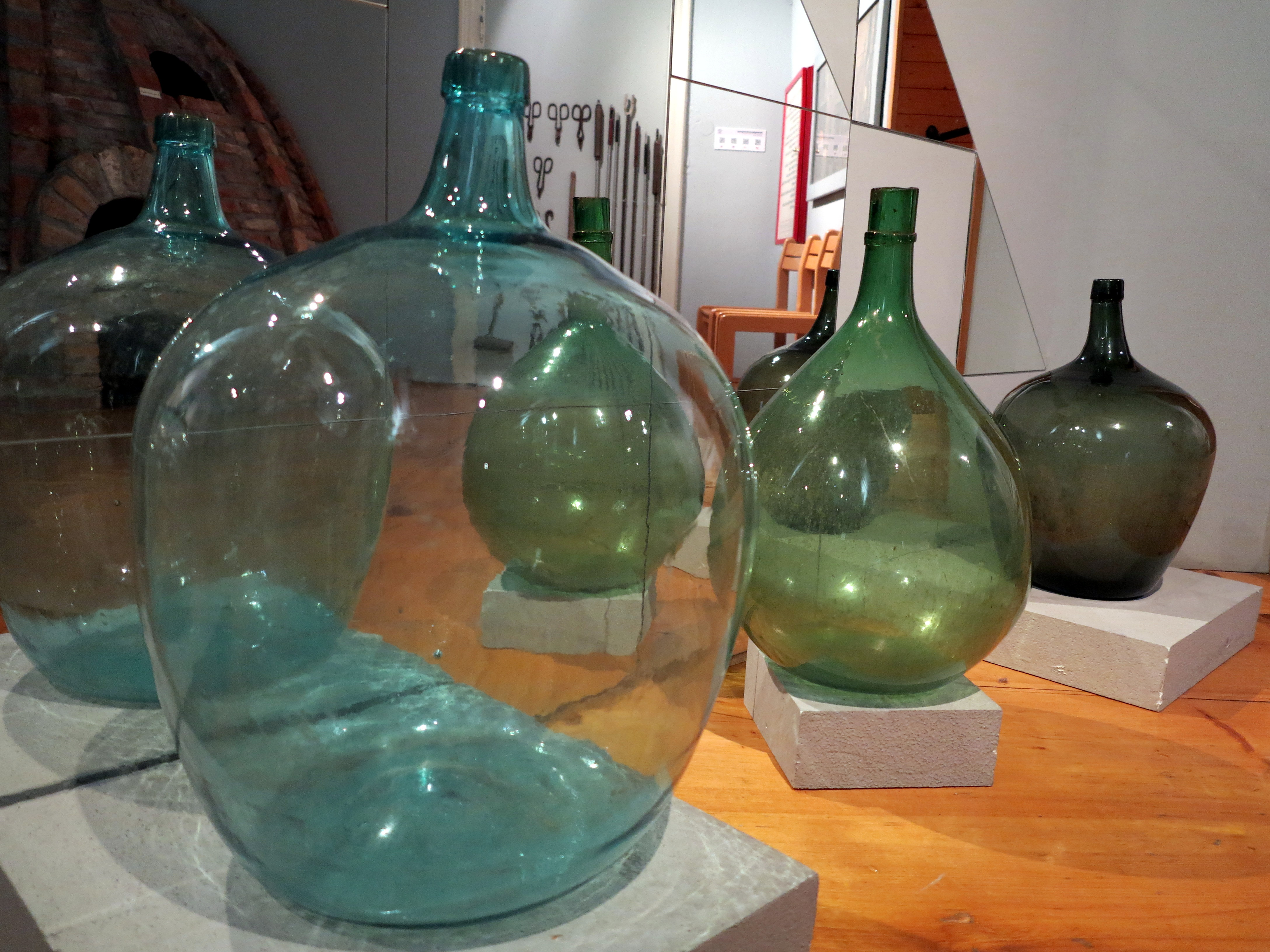 Glass products, presumably from the village glassblower Tscherniheim, a place of Forest glass production from 1621 to 1879 in the municipality Hermagor-Pressegger See in Carinthia / Austria / EU. Exhibits at the Museum of Folk Culture in Spittal an der Drau.